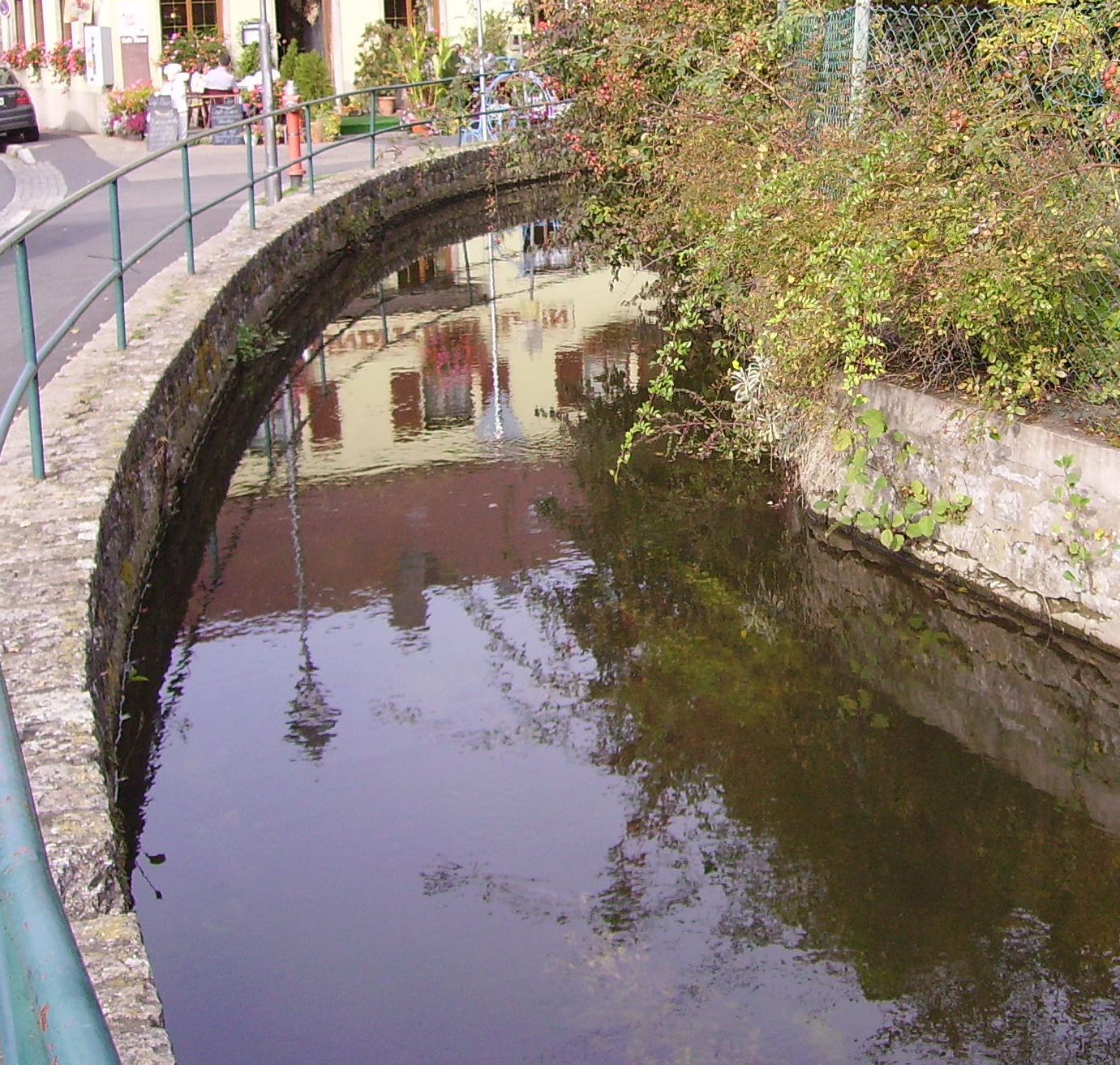 Münsterschwarzach, Germany